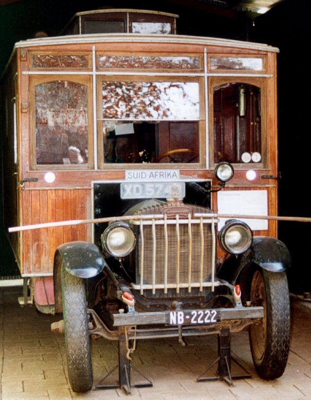 Date taken: 2000. Image shows the motorcaravan as it was after its 1975 refurbishment. Subsequently it was donated to the Winterton Museum, KwaZulu Natal, South Africa, which is where the photo was taken. The base vehicle is a 1920 Commerce truck from the USA. The conversion was undertaken by John Weston . In 1931-2, it was driven from South Africa to Britain overland with the Weston family aboard.